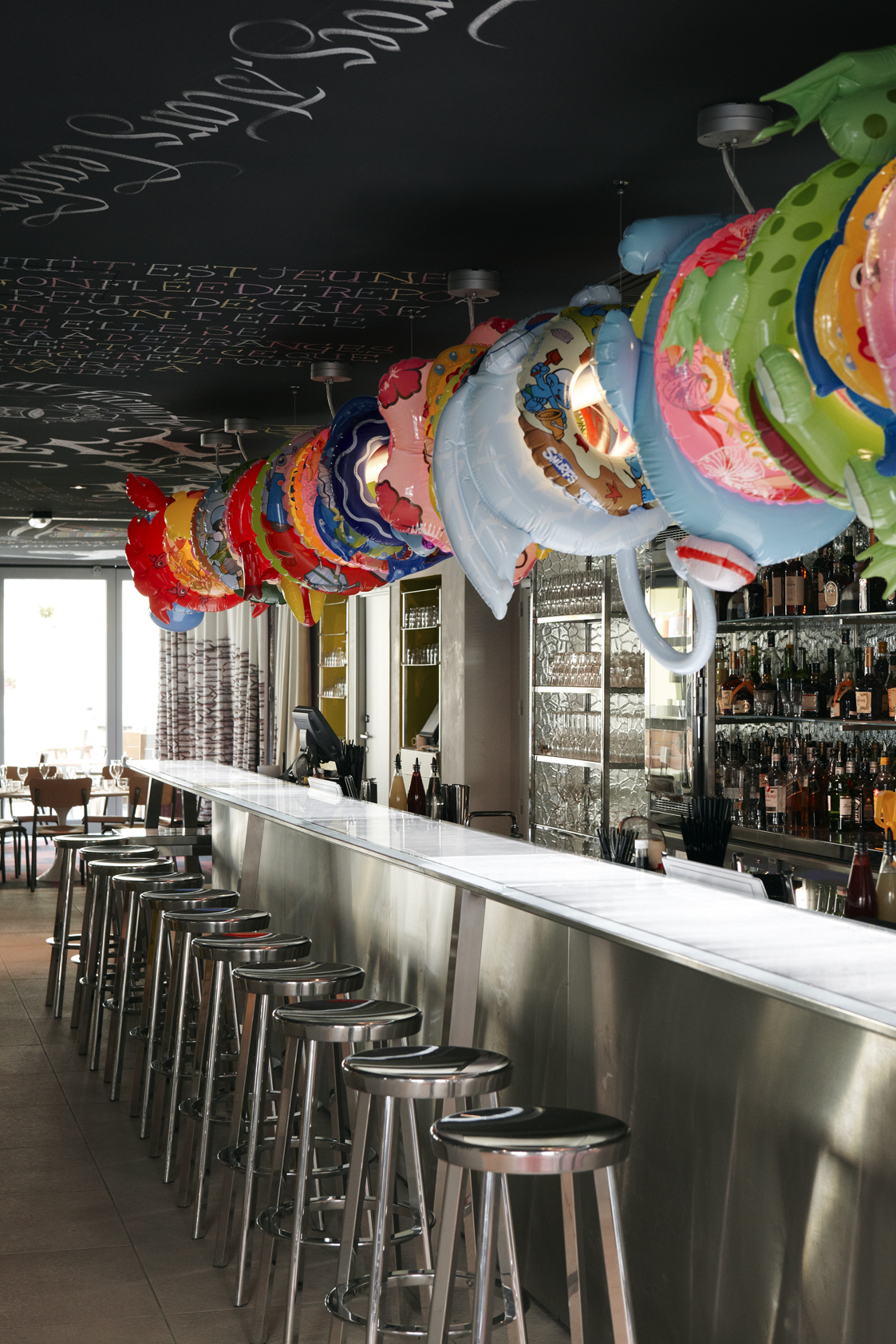 Mama Shelter, Marseille, 2012